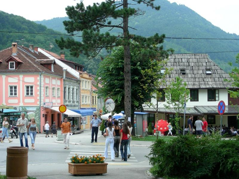 Town of Ivanjica, Serbia/Le centre ville d'Ivanjica, Serbie